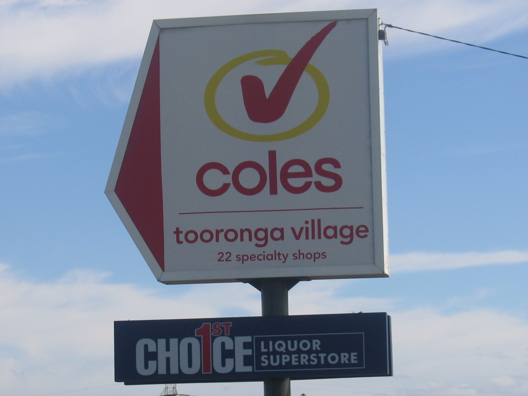 Author: Murtoa 11:50, 20 May 2007 (UTC) I took this photograph myself, March 2007